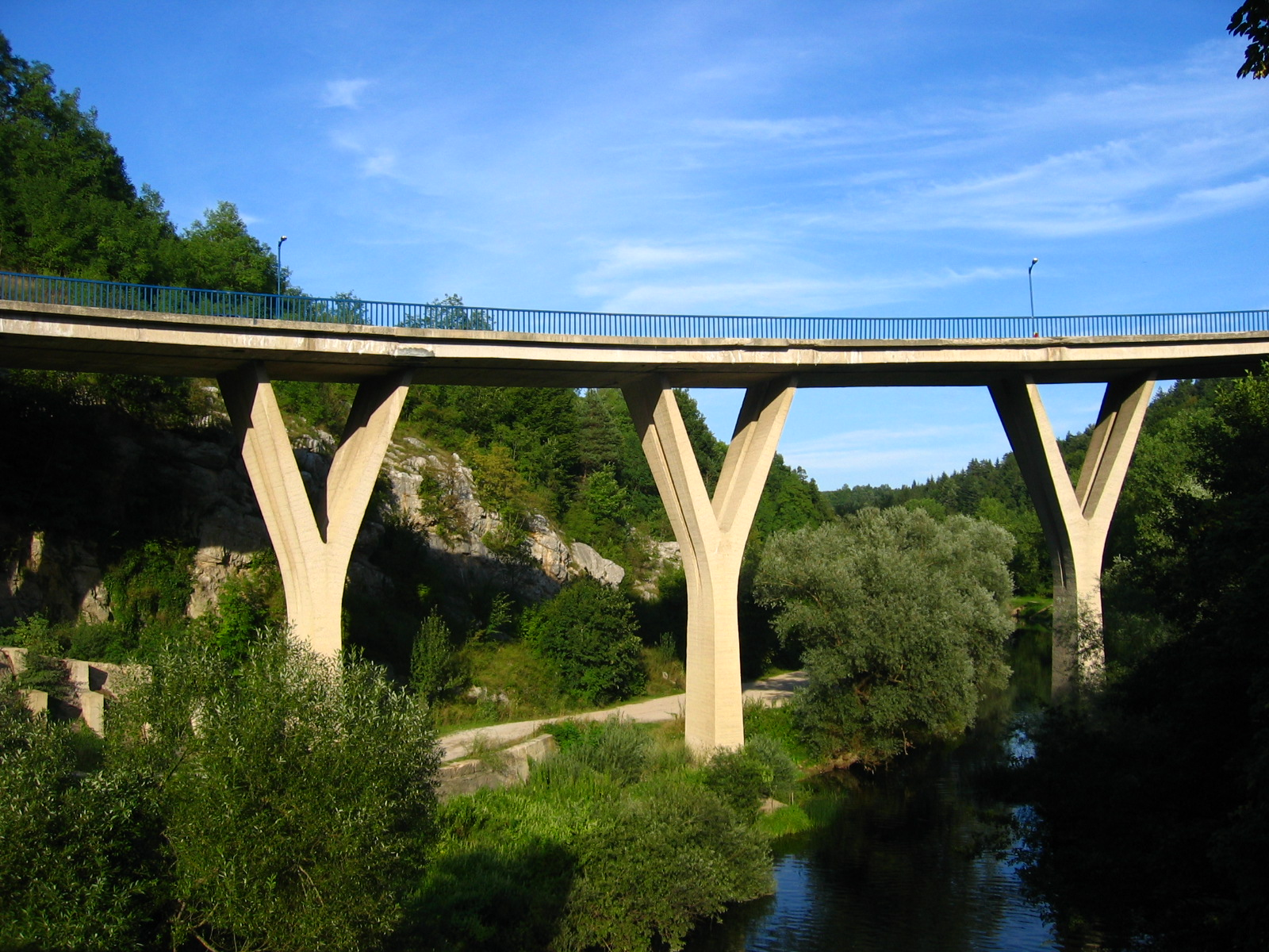 Road bridge across the river Korana in Slunj, Croatia